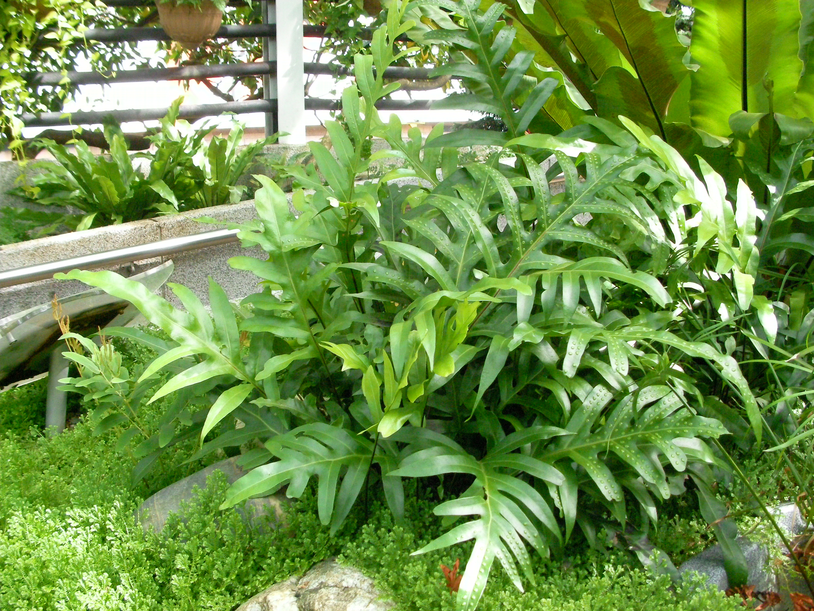 Phymatosorus scolopendria (syn. Phymatodes scolopendria) taken in Hong Kong Zoological and Botanical Gardens